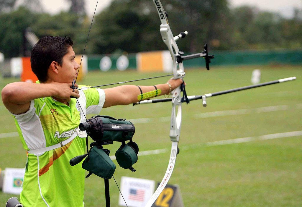 Mexican archer Juan René Serrano